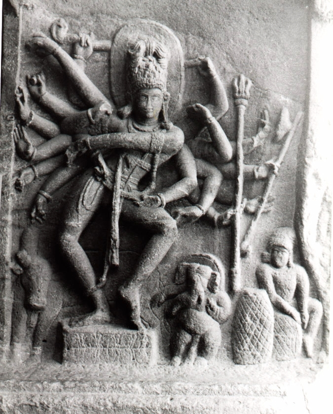 Shiva, Nataraja, Chalukya Dynasty, Badami, karnataka, India